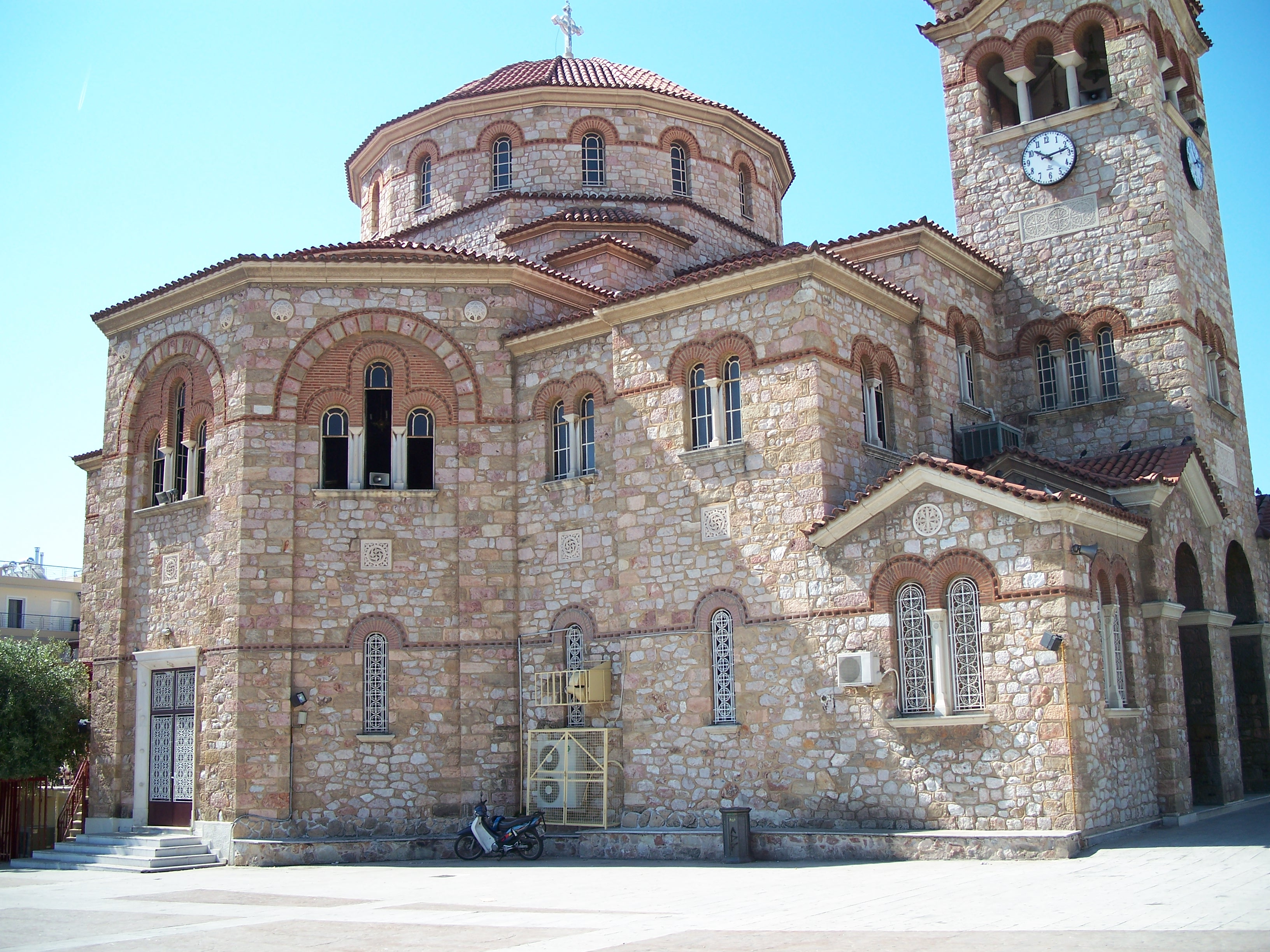 The church at Estavromenou Square, Egaleo, Athens.